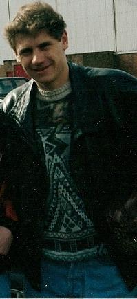 Andrej Kanchelskis, former Man.United player, in march 1992 at the cliff.